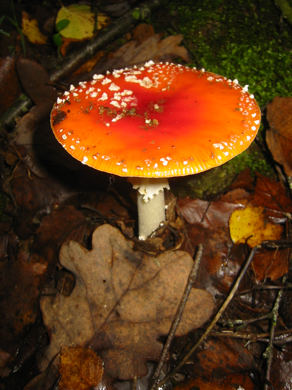 Amanita Muscaria